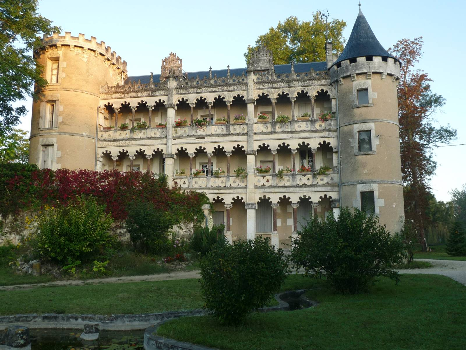 The manor of Jean Hippolyte Michon, Baignes-Ste-Radegonde, Charente, SW France